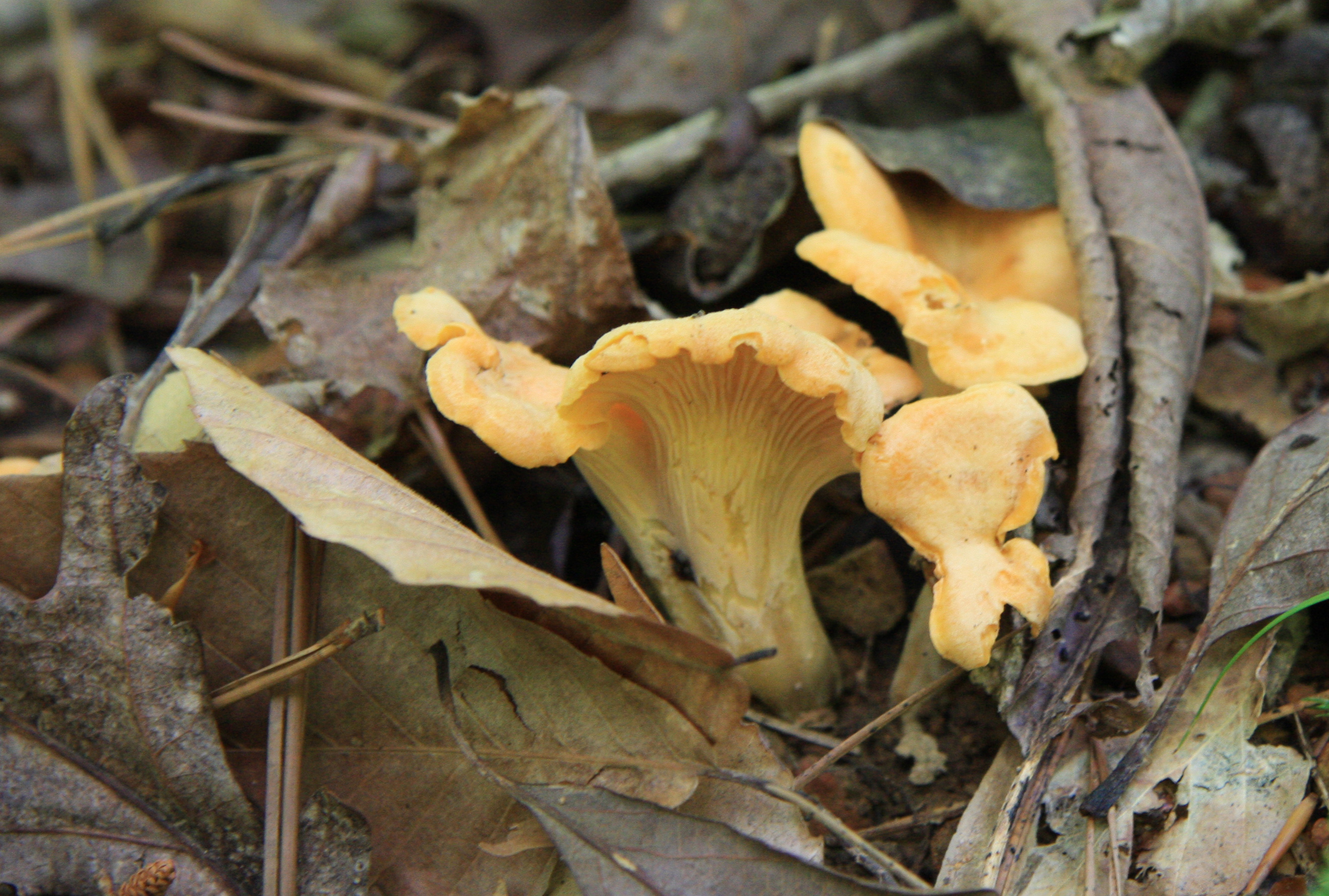 Chanterelle mushrooms (Cantharellus cibarius) on woods floor, Duke Forest Korstian Division, Durham NC.